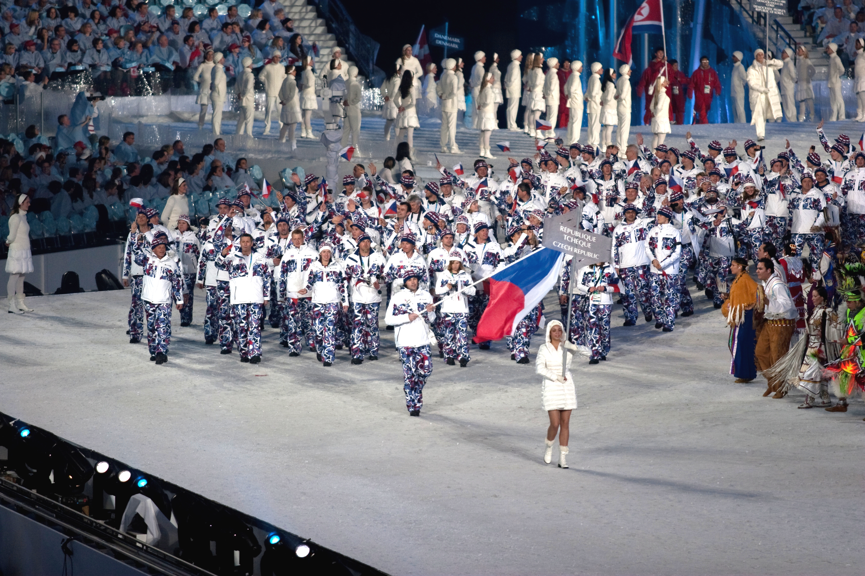 The athletes from the Czech Republic entering the stadium at the opening ceremonies of the 2010 Winter Olympics